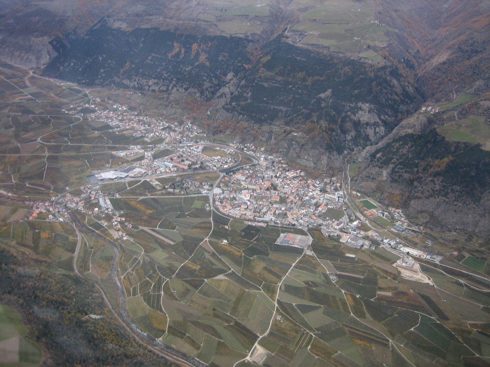 Schlanders (South Tyrol), taken from the air: Göflan on the left; Kortsch on the upper left.